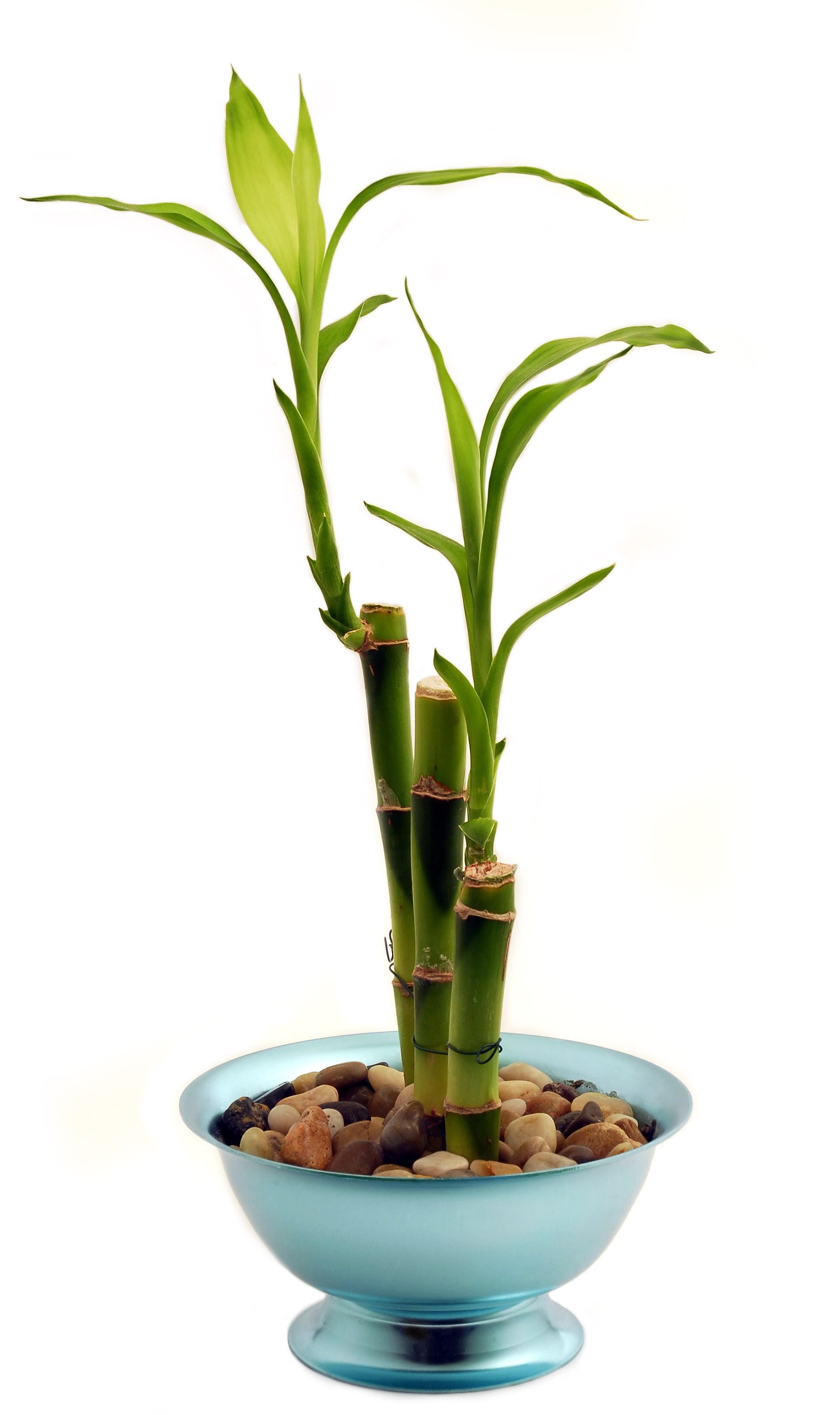 Pieces of bamboo cut for use as a houseplant.